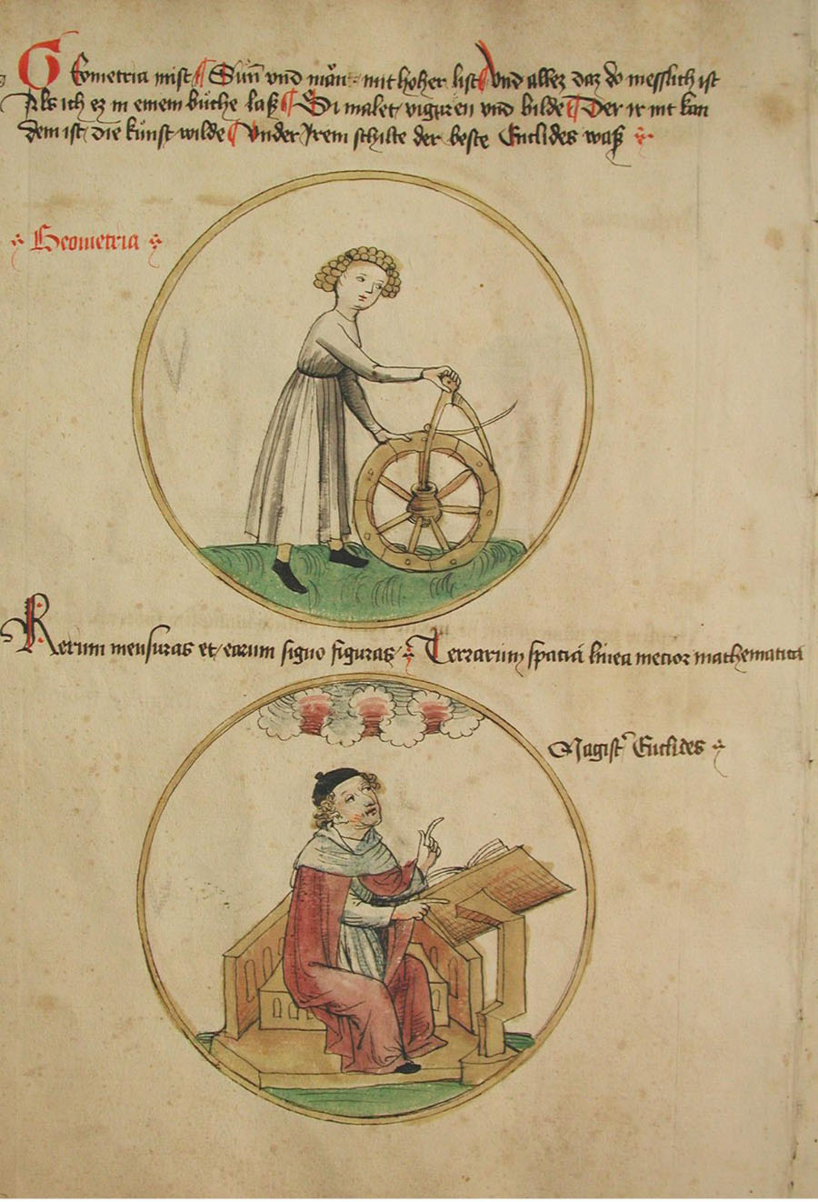 The Seven liberal arts. Geometry and Euclid.